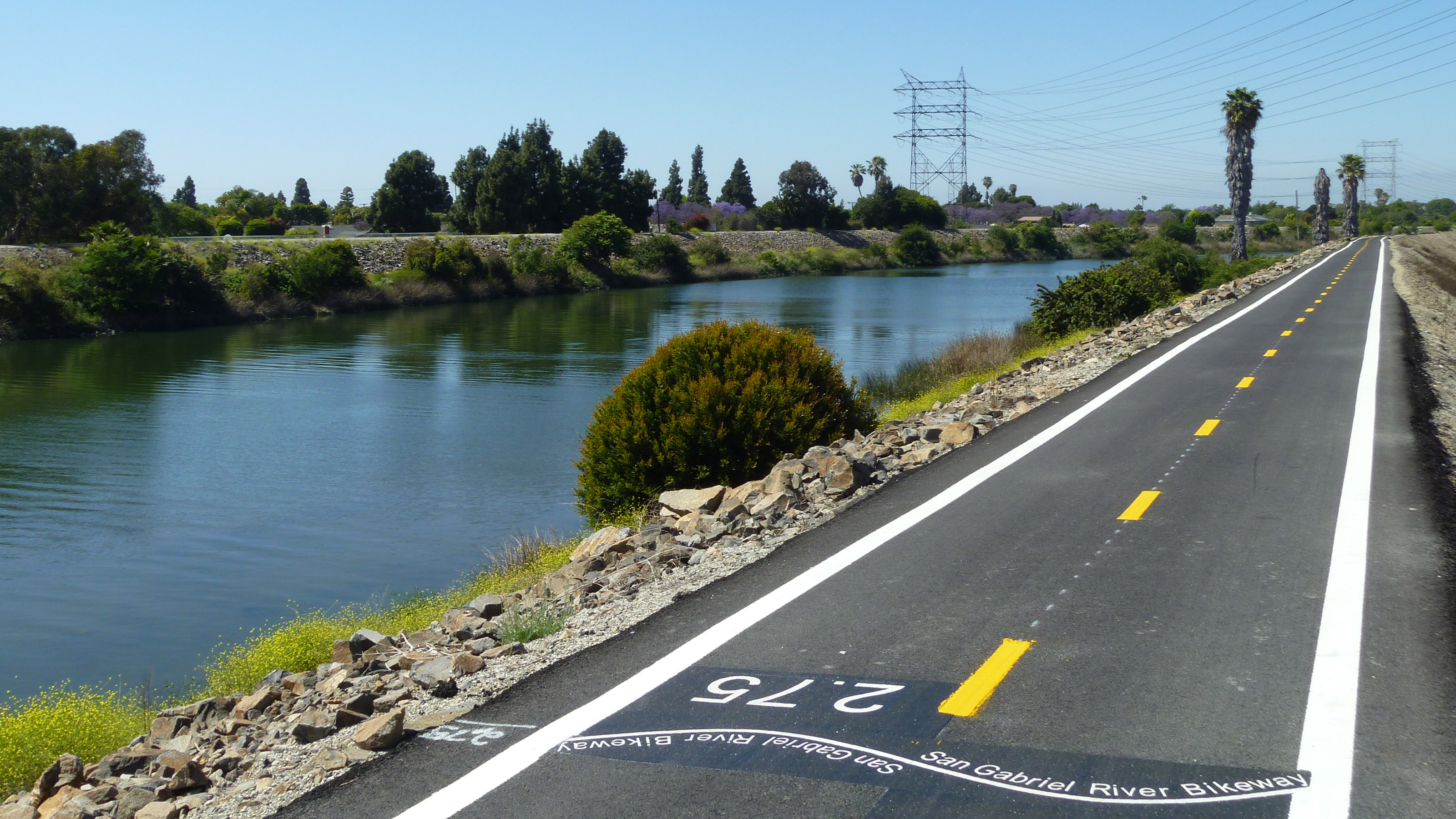 A photograph of the San Gabriel River bicycle trail at mile 2.75 on the border of Long Beach, California, size 3200x1800